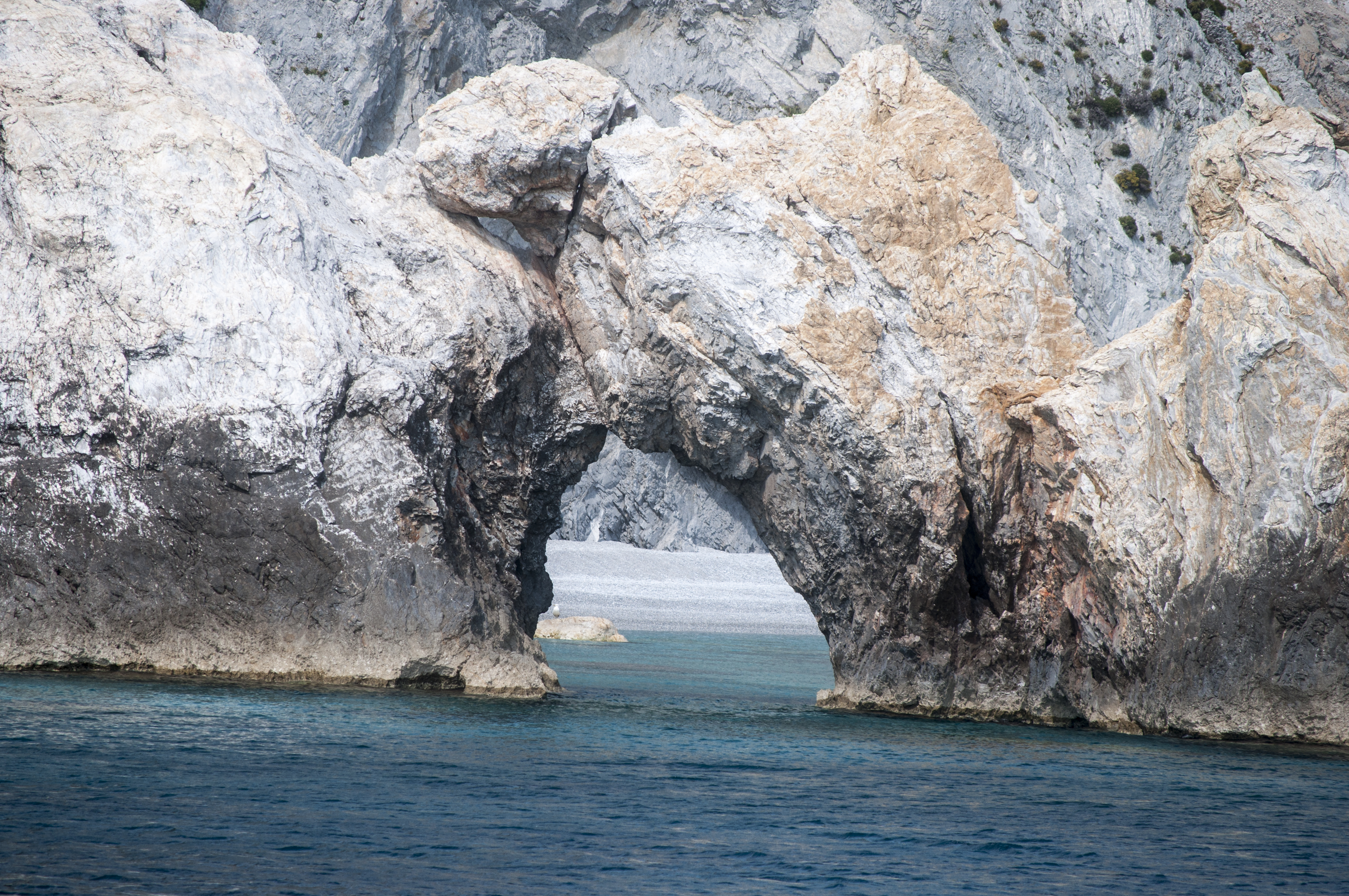 This is a photography of Natura 2000 protected area with ID GR1430003